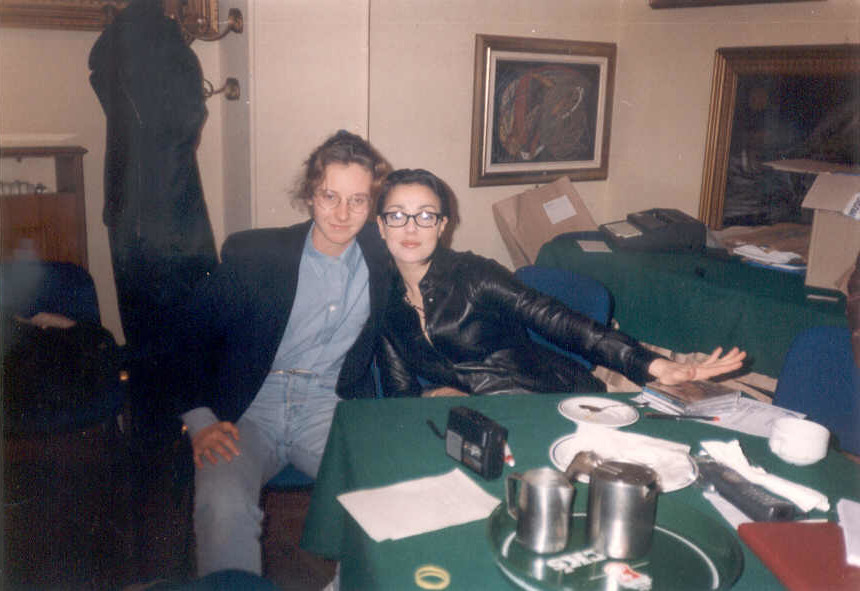 The Italian actress and show girl Ambra Angiolini (left) with the Italian writer Elena Torre (right)